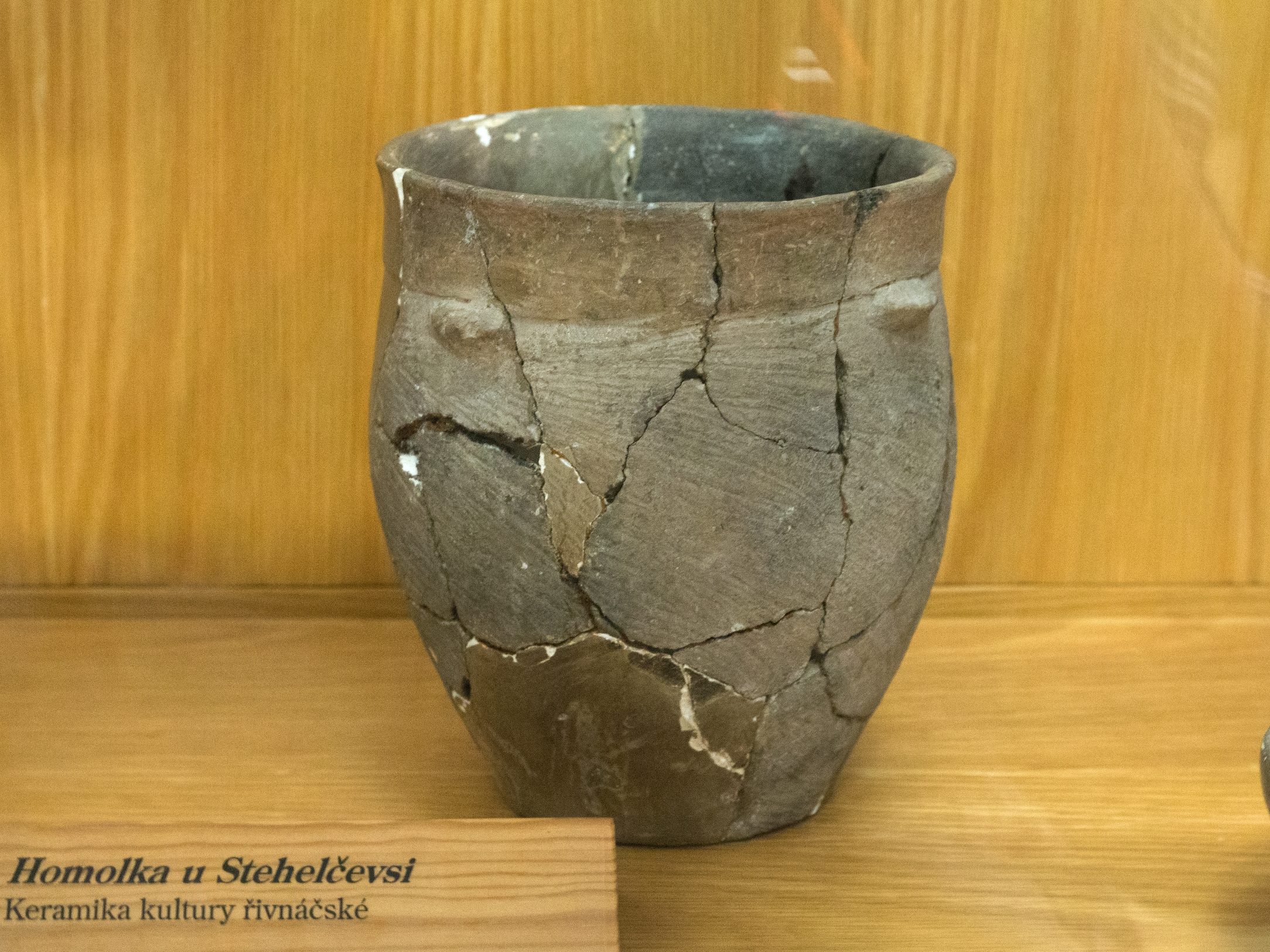 Pottery of the Řivnáč culture. Copper Age. Homolka near Stehelčeves. The Sládeček Museum of Local History in Kladno.